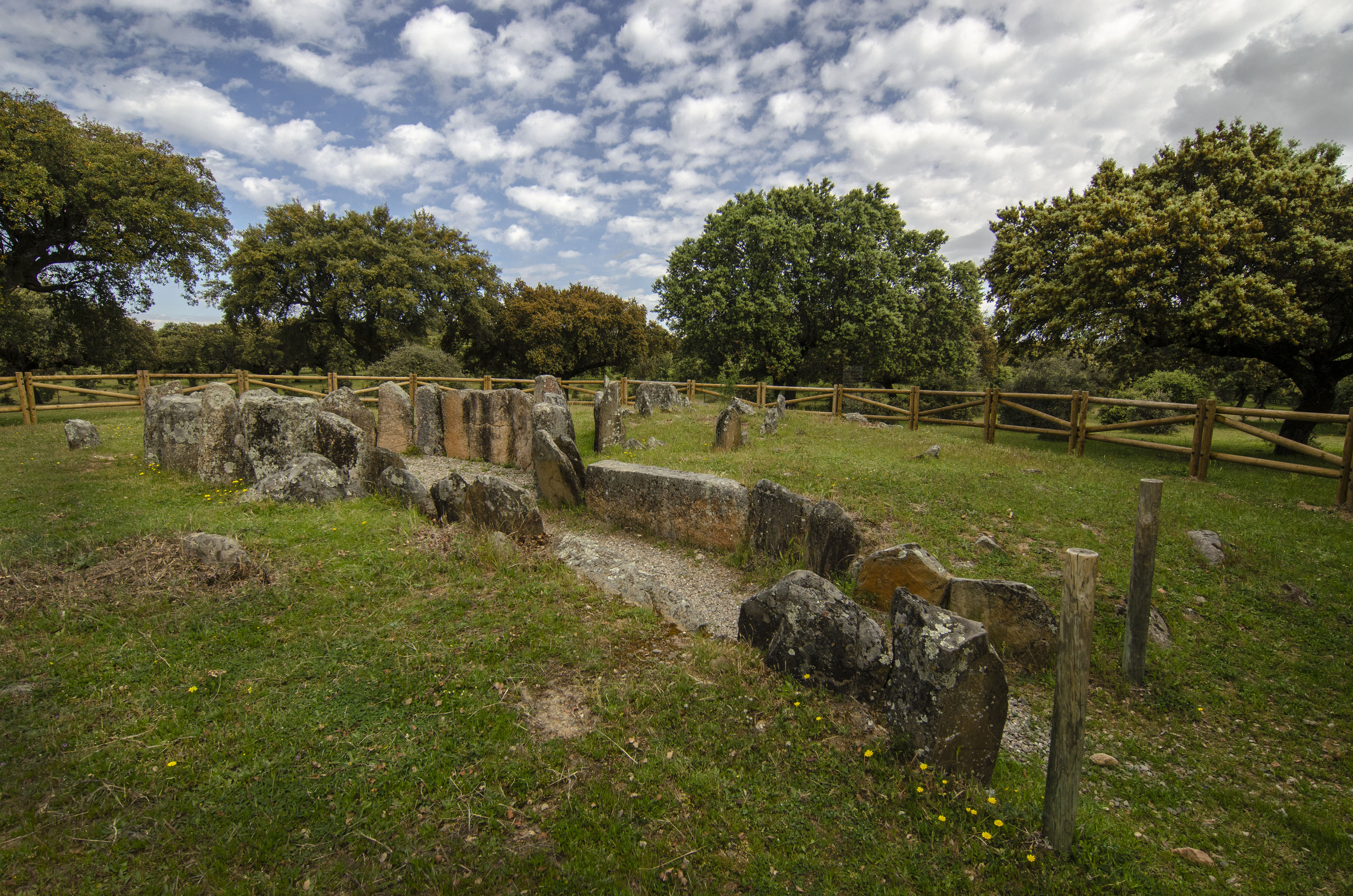 En la dehesa boyal de Montehermoso, Cáceres, hay un conjunto de tres dólmenes excavados entre los años 1999 y 2000 cómodamente visitables por senderos bien señalados. El de la foto recibe el nombre de Dolmen de la Gran Encina (Foto nueva).